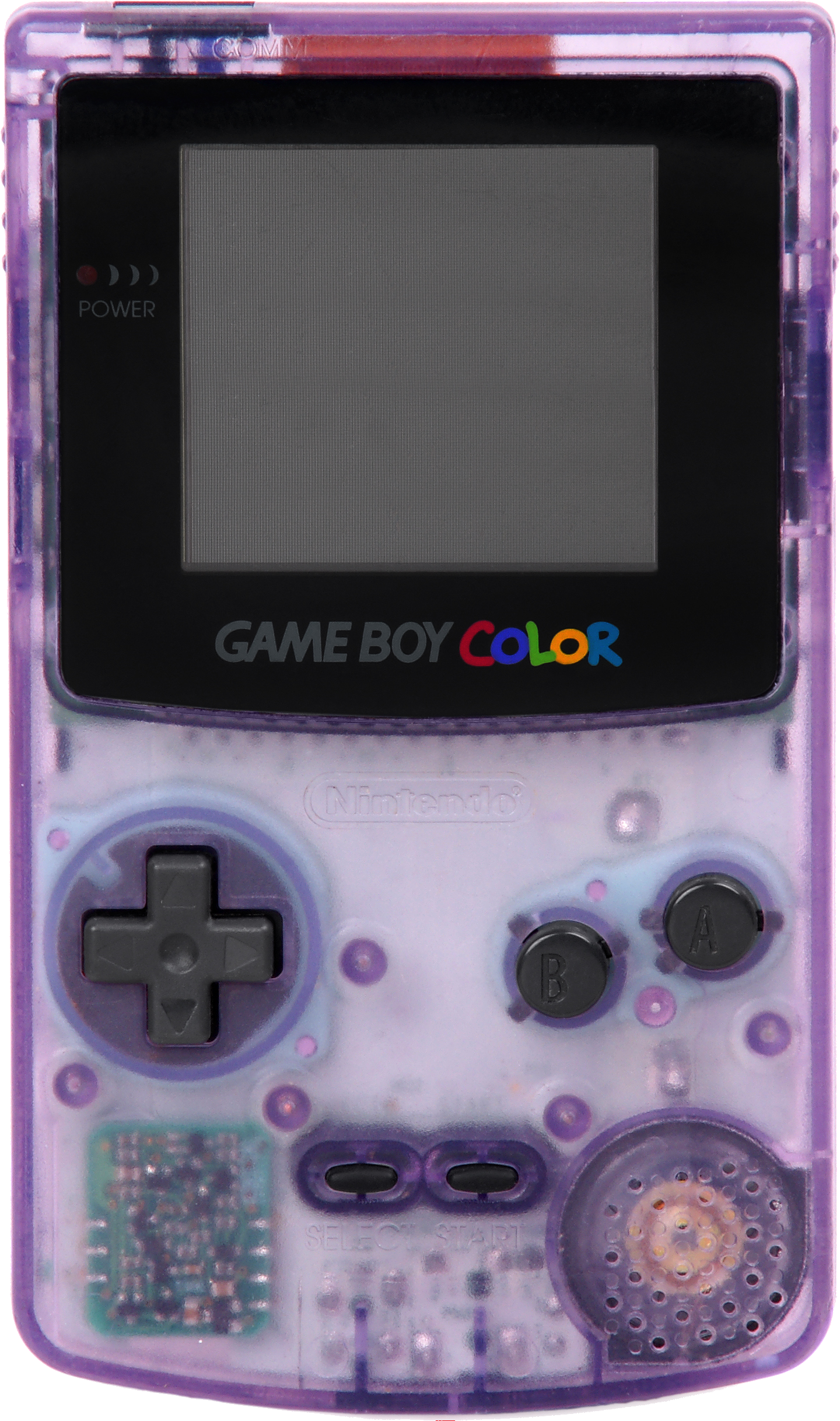 A Game Boy Color, shown in clear atomic purple color.